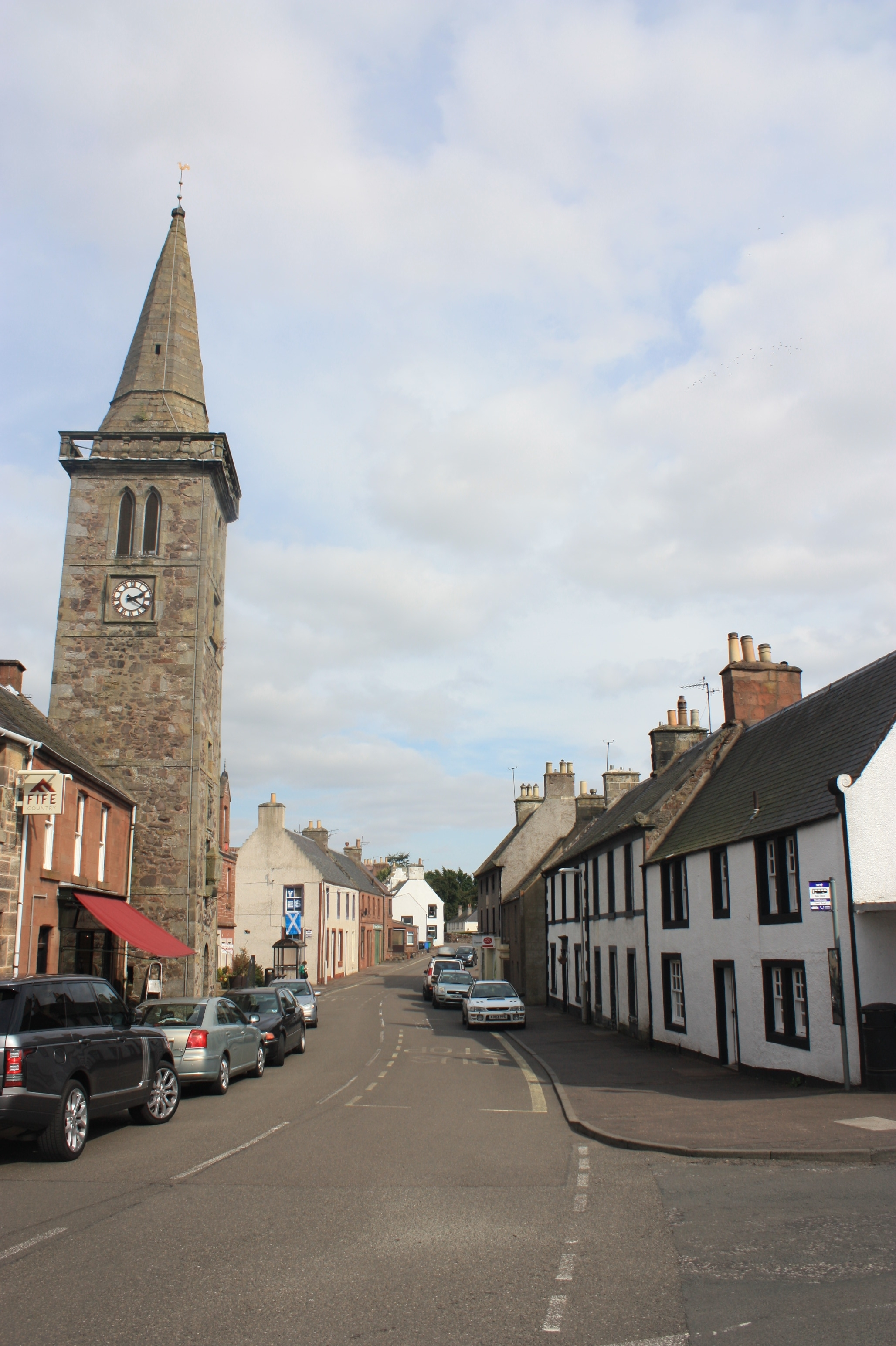 High St Strathmiglo